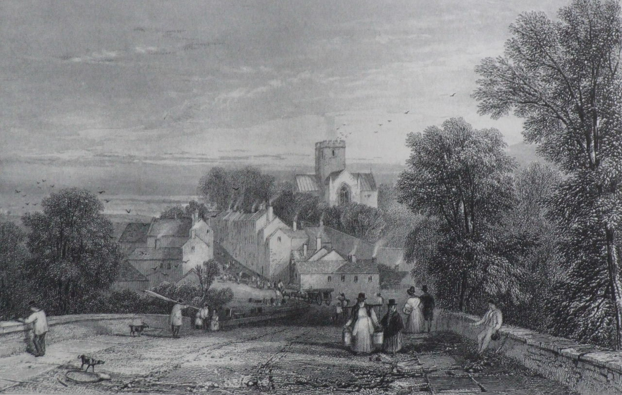 Engraving from Hanes y Brutaniaid a'r Cymry by Gweirydd ap Rhys (1886), showing Llanelwy/St Asaph (Denbighshire, Wales), with travellers and the cathedral. From an earlier painting (first half 19th century?).